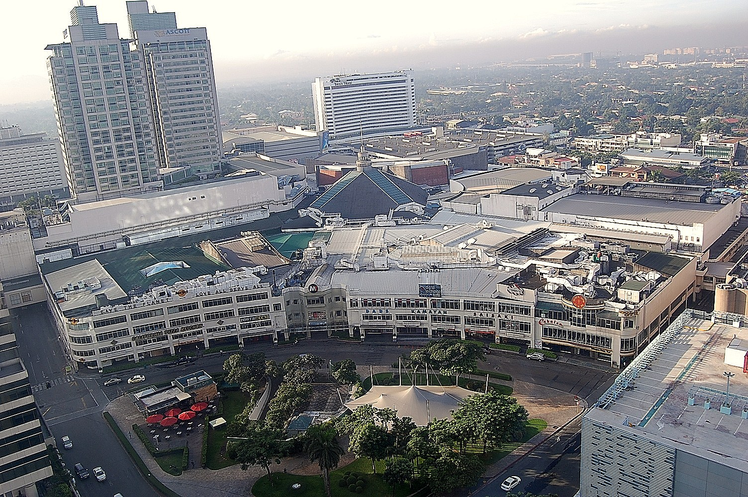 Glorietta building complex